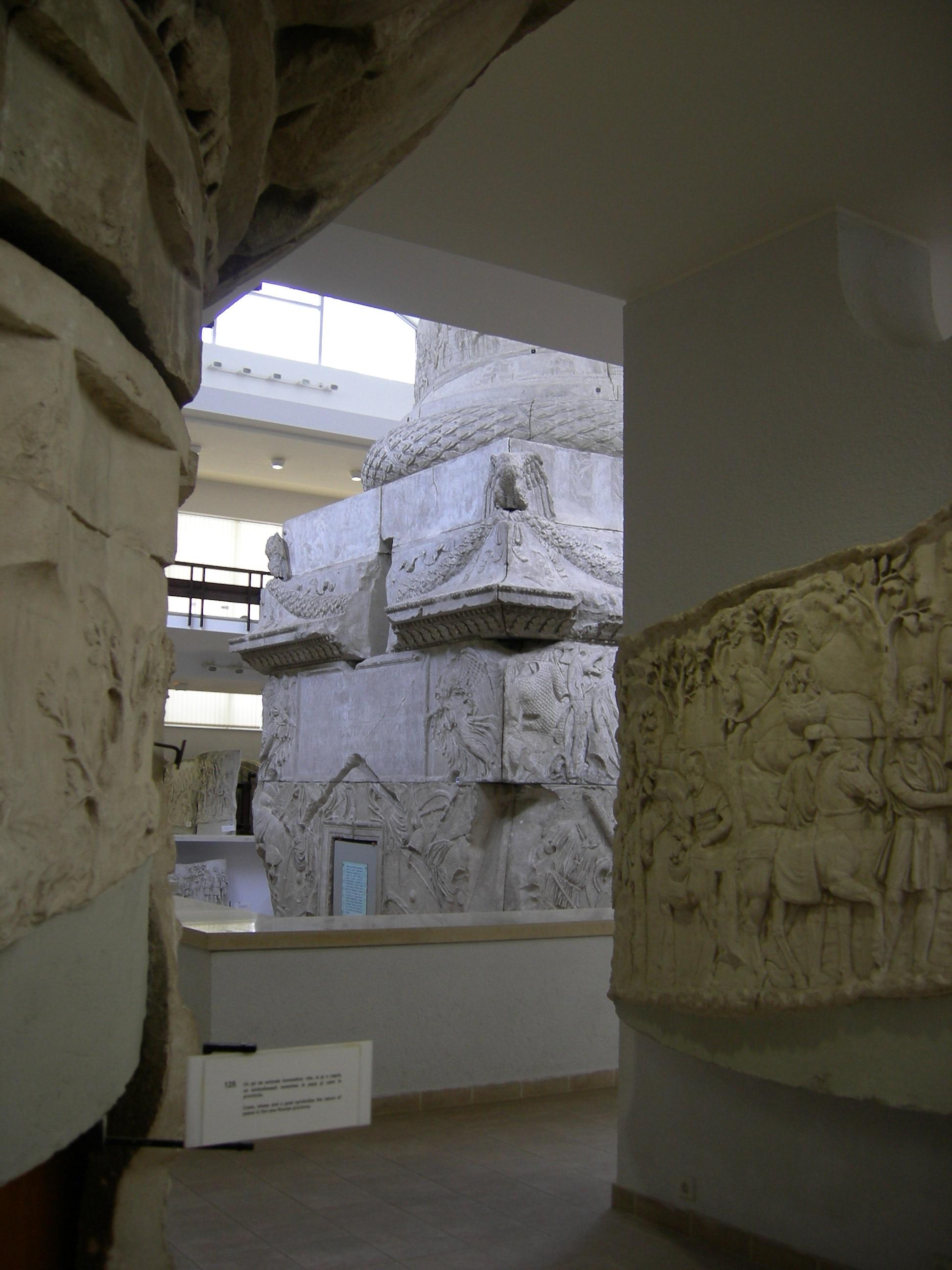 Permanent exhibit of plaster-cast reproductions of Trajan's Column at the Museum of Romanian History in Bucharest, Romania